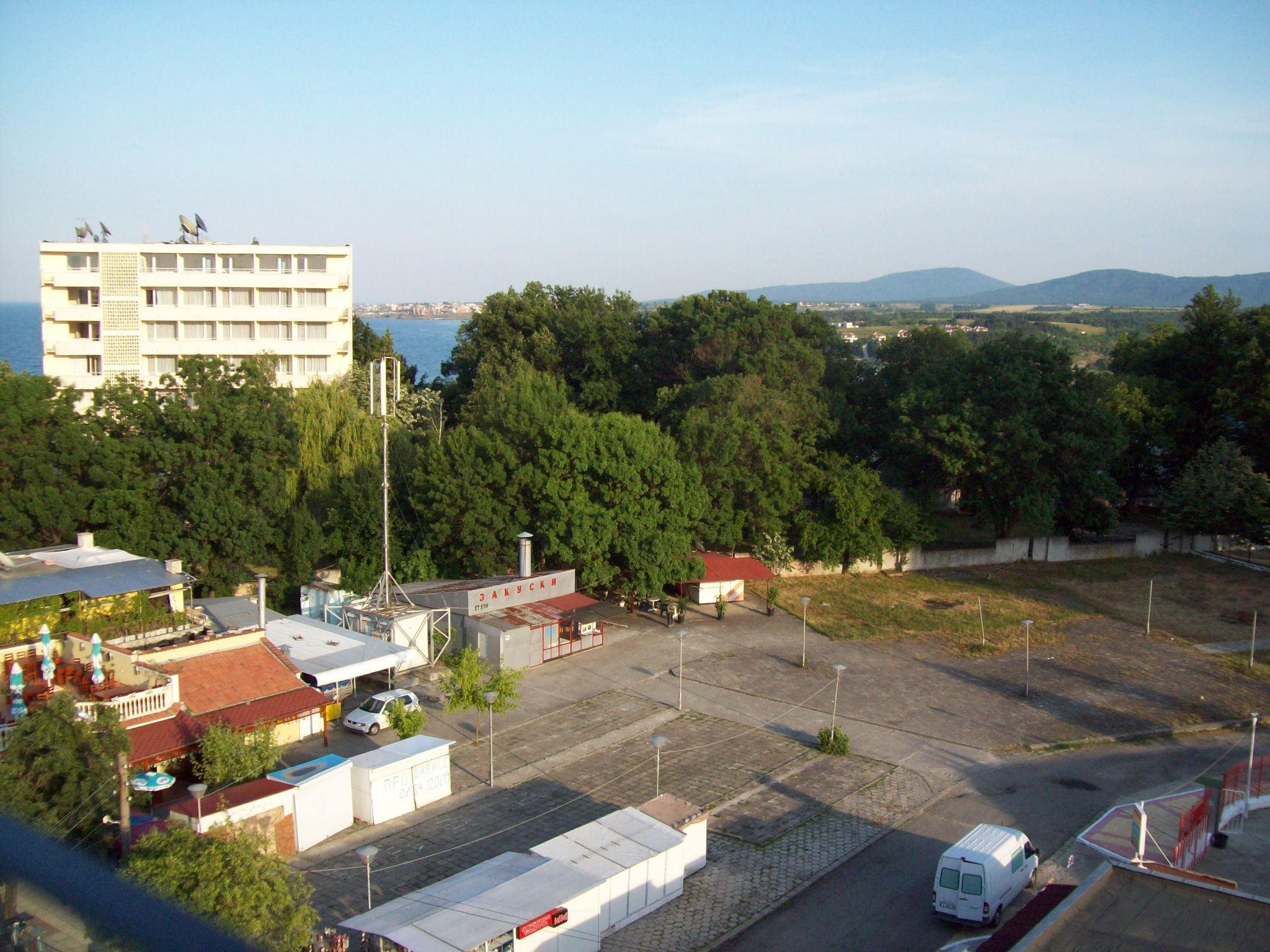 Western view from hotel Kiten Beach